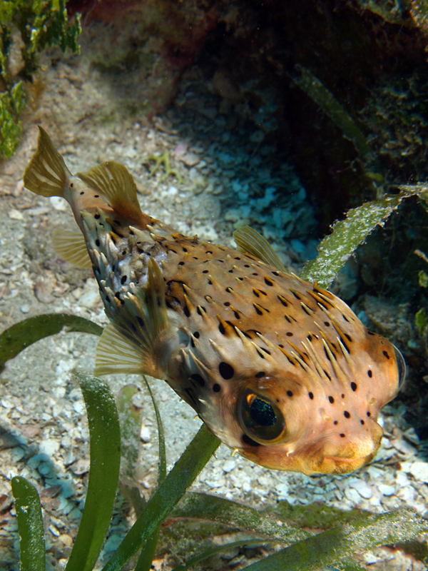 Diodon holocanthus (Balloonfish)